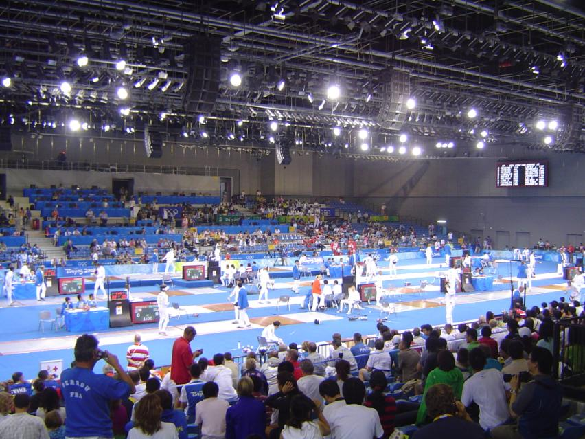 The fencing competition of the men's Modern pentathlon at the 2008 Summer Olympics in the Olympic Green Convention Center.